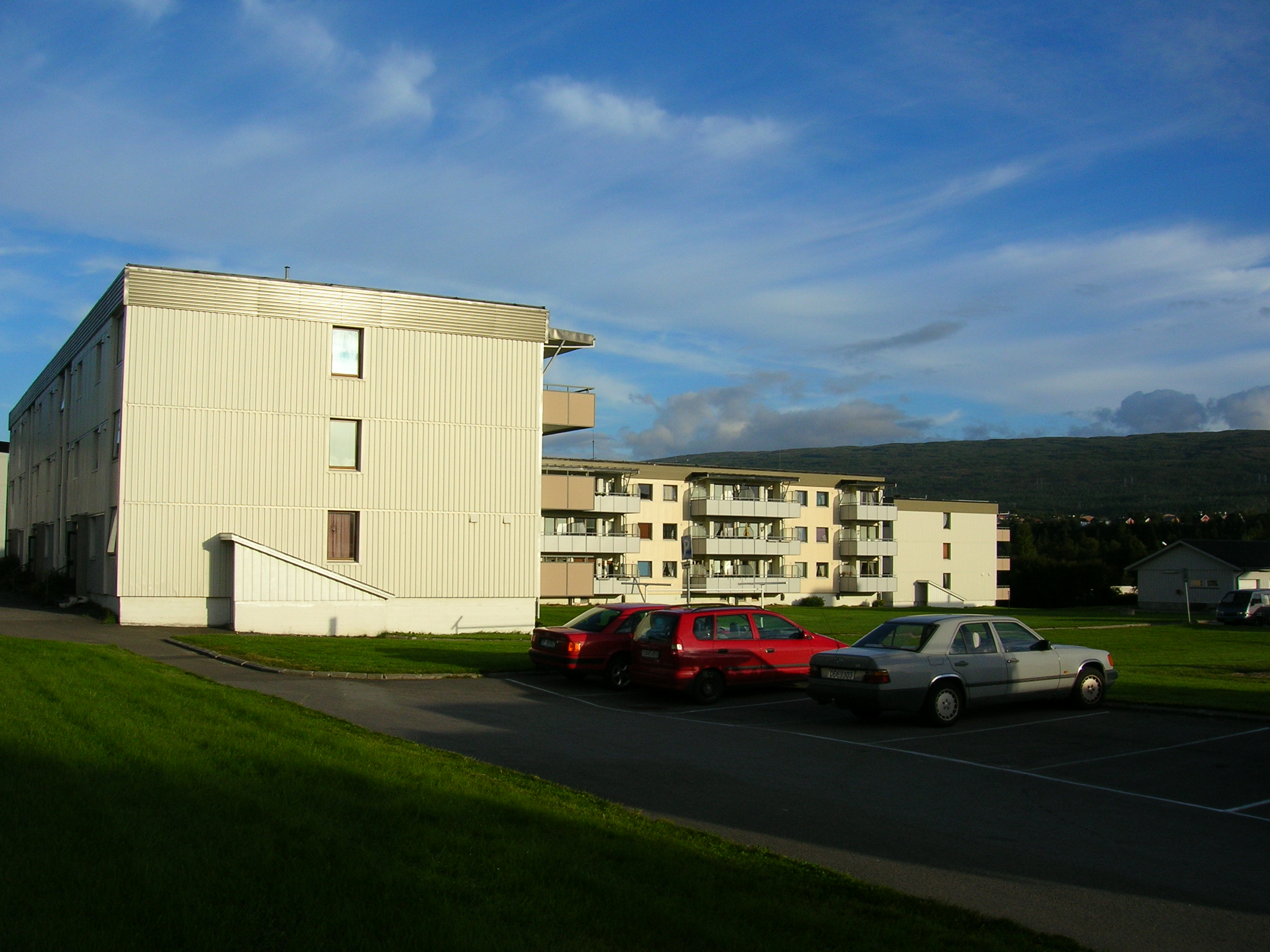 Ormenget housing cooperative on Selfors, north of Mo i Rana, Rana municipality, county of Nordland, Norway, Photo 4 September, 2007 with a Nikon Coolpix 5600 5,1 Megapixel camera.